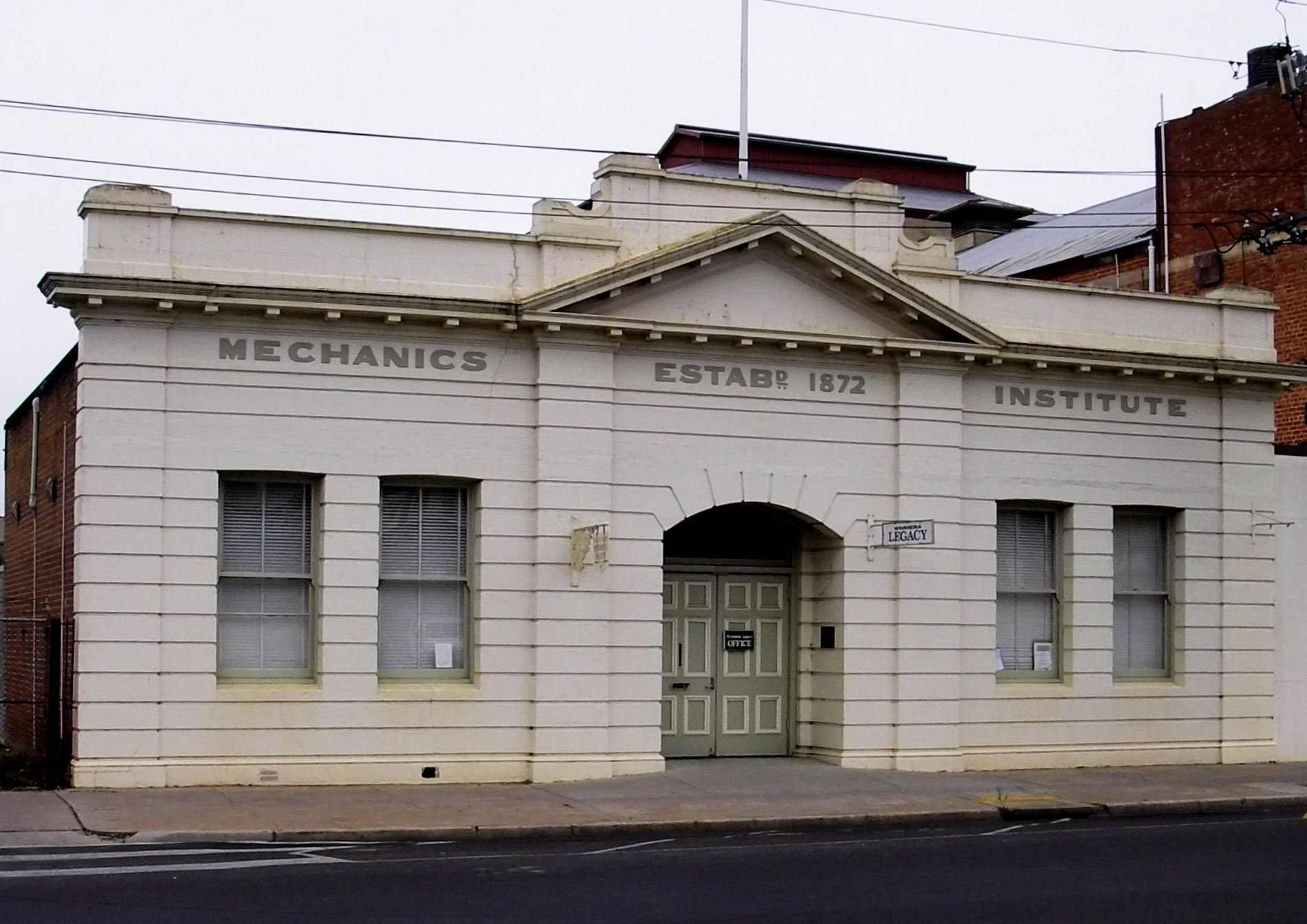 Photo of Mechanics Institute Building, Pynsent Street, Horsham, Australia.